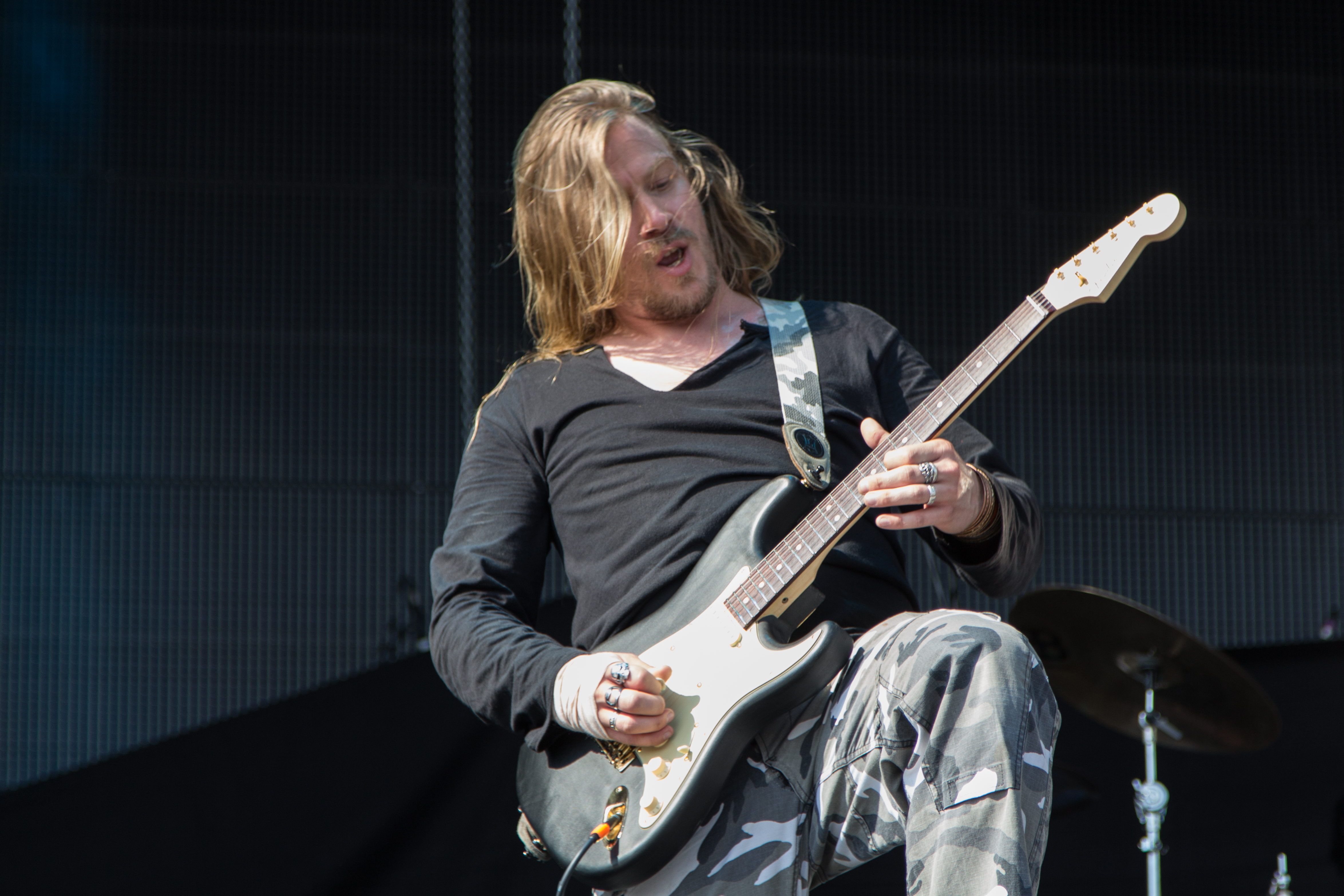 Thobbe Englund from Sabaton at the See-Rock Festival 2014